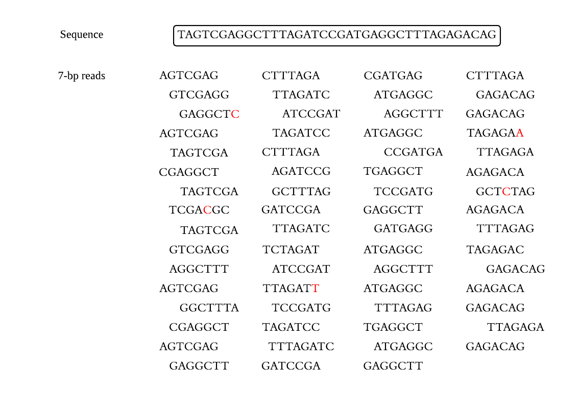 A strand of DNA having been read and broken into 8-mers, with incorrect reads in red